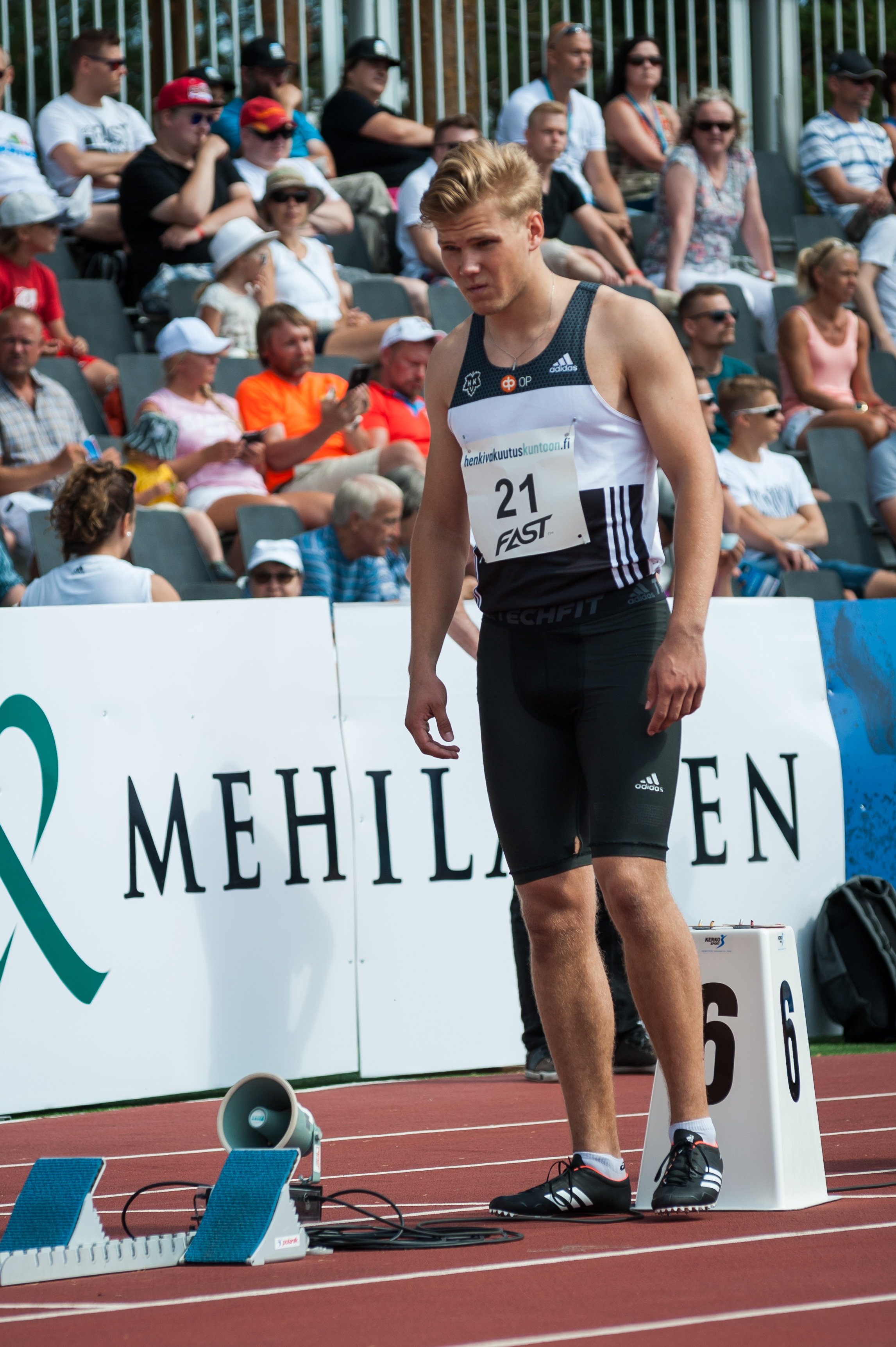 Men's 200 m competition at the 2018 Kalevan Kisat, the Finnish championships in athletics, in Jyväskylä, Finland.